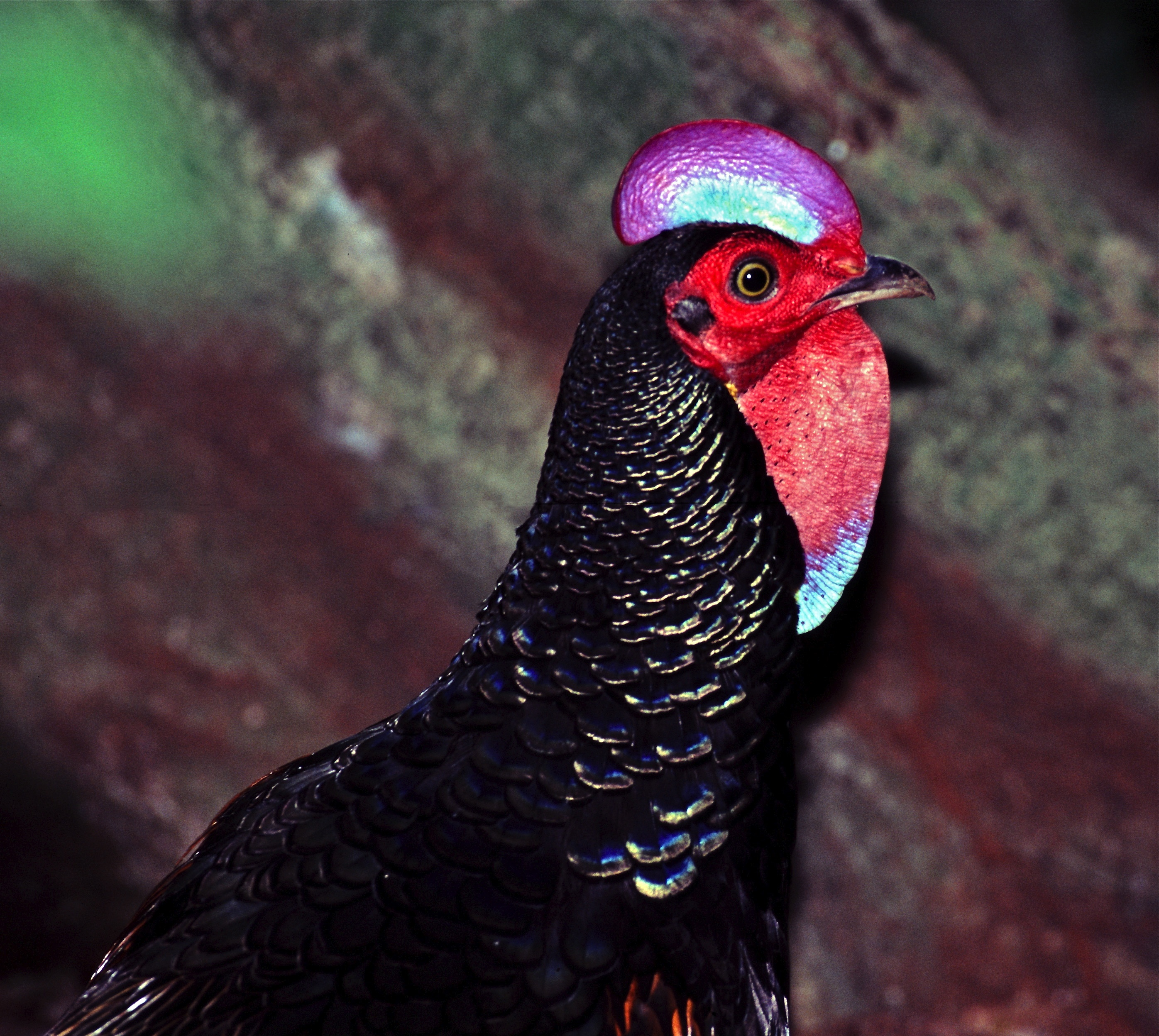 Bird Park, Wisata Bogor, Java, INDONESIA Scanned Slide from 2003